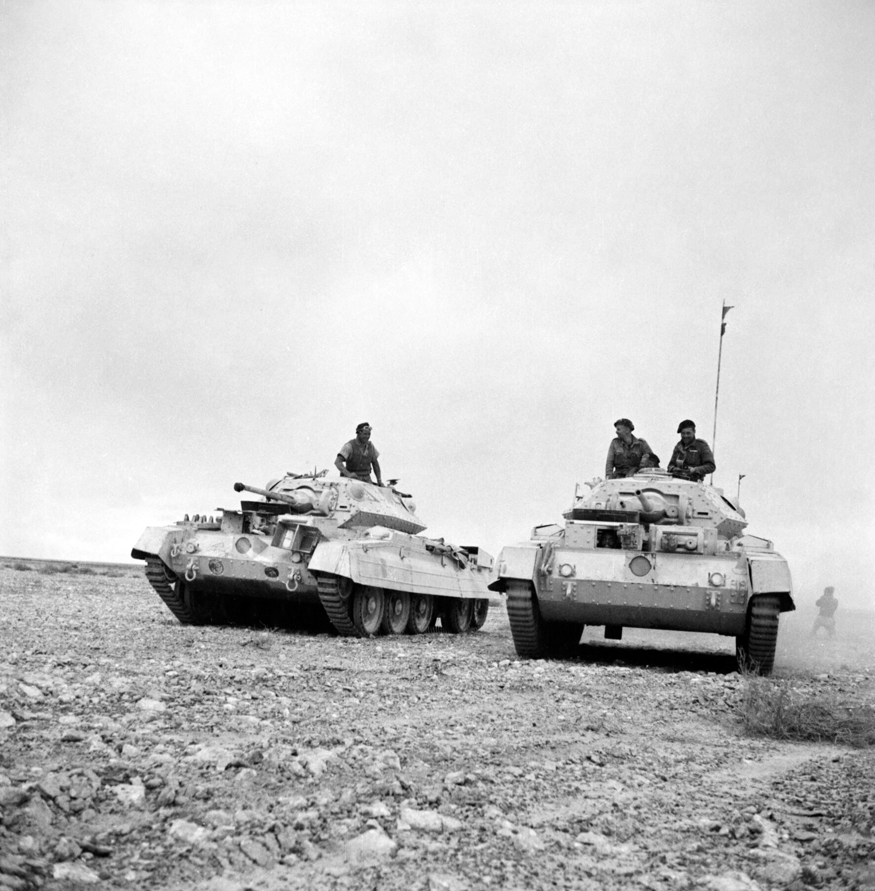 IWM caption : THE BRITISH ARMY IN NORTH AFRICA 1941. Crusader tanks moving to forward positions in the Western Desert.